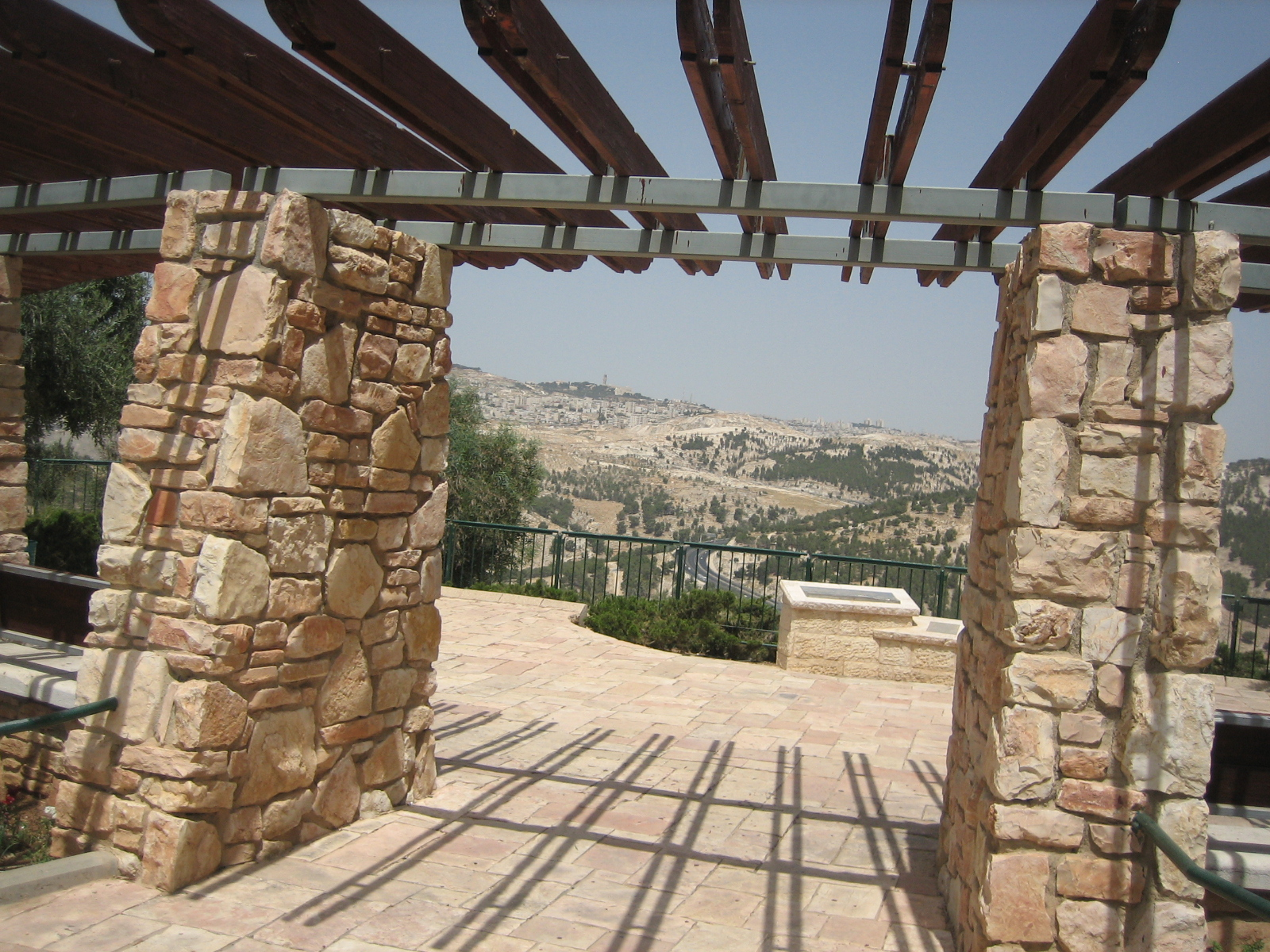 Mizpe-Edna observation point in Ma'ale Adumim with a view on Jerusalem, Scopus mountain